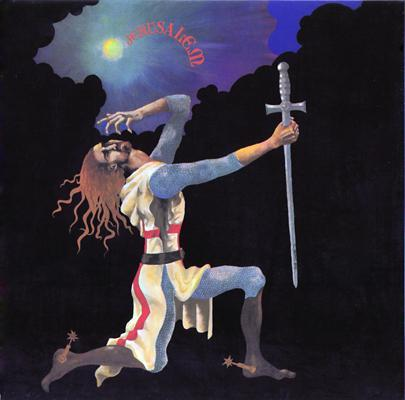 Album cover of the legendary 1972 album 'Jerusalem' by British Rock Band 'Jerusalem', who were managed and produced by Ian Gillan (Deep Purple)